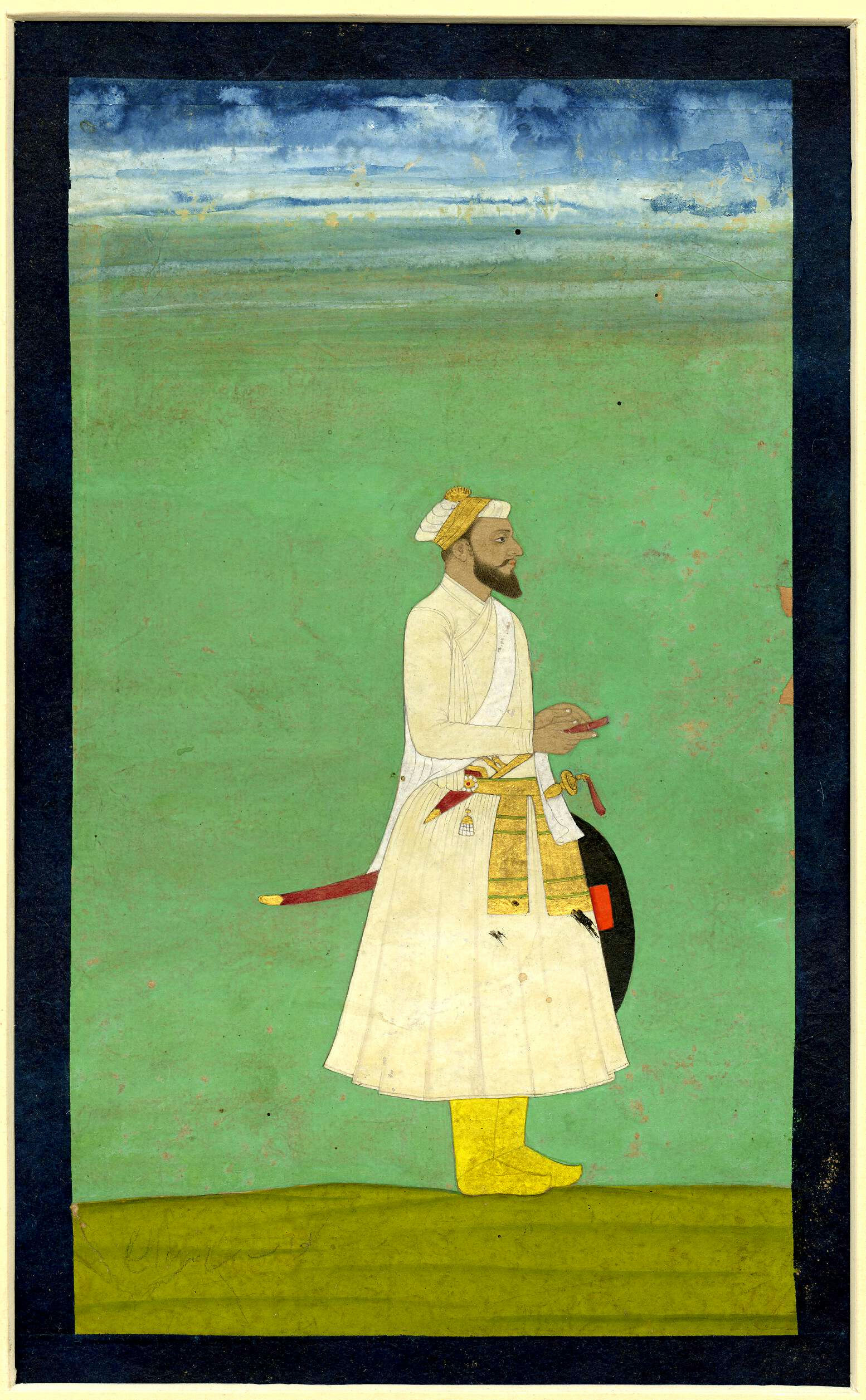 Album leaf. Portrait. Nawab Sháyista Khán. On paper.